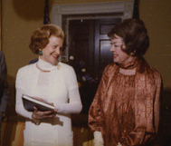 The photo contact sheet, identified as A9731 by the White House Photographic Office (WHPO), is housed at the Gerald R. Ford Presidential Library, a branch of the National Archives and Records Administration (NARA). This file is a 200 dpi photo contact sheet having images from roll of film A9731 of the August 9, 1974 - January 20, 1977 Gerald R. Ford White House Photographic Office Series A0001-A9999 and B0001-B2886 photographs. The date on the photo contact sheet is the date the roll of film was processed, not necessarily the date the photographs were taken. See table below for additional details.